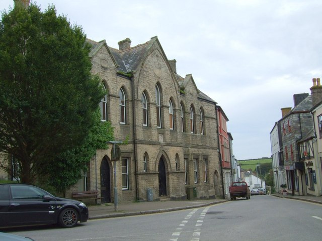 St Columb Major Mechanics Institute in St Columb - presumably the old school.